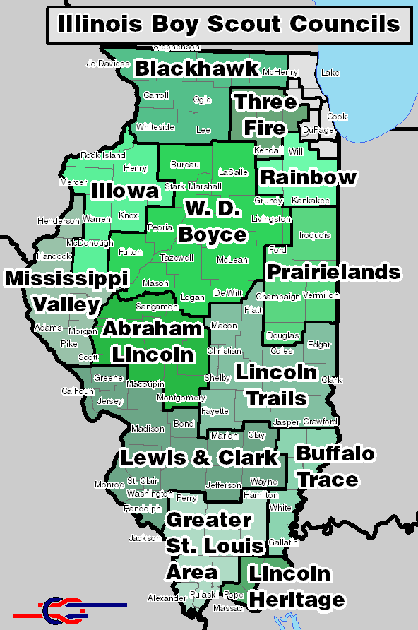 Illinois BSA Councils - Map created using boundary information publicized by the relevant BSA councils. US Census TIGER data used for county and state lines. Council divisions are exact where they coincide with county lines and approximate in other areas. All councils on this map are in the central region.